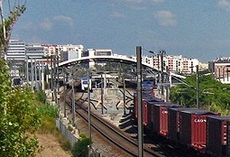 Pragal Train Station, in Almada, Portugal.